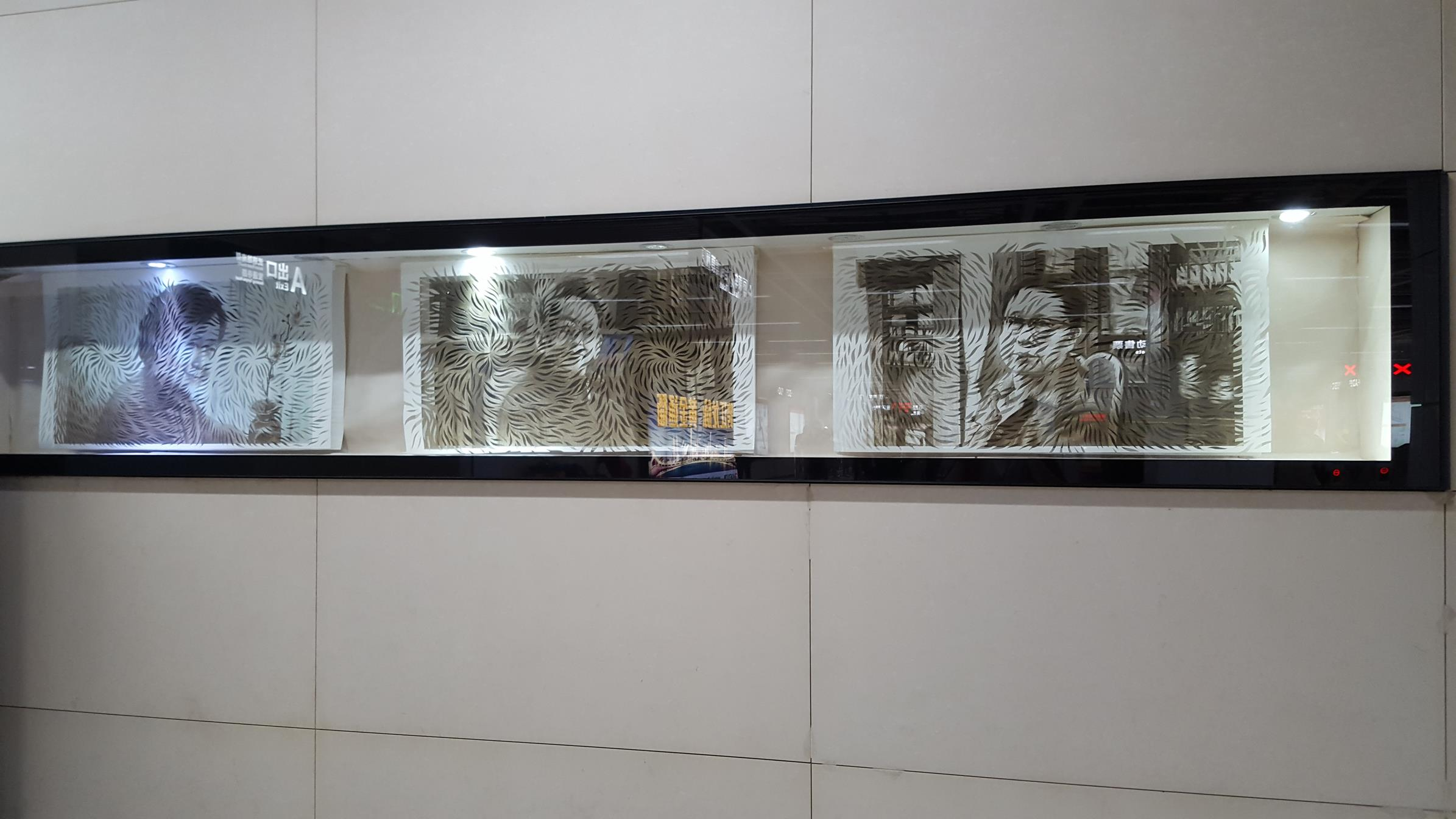 Art Box in Baotong Temple, Wuhan Metro